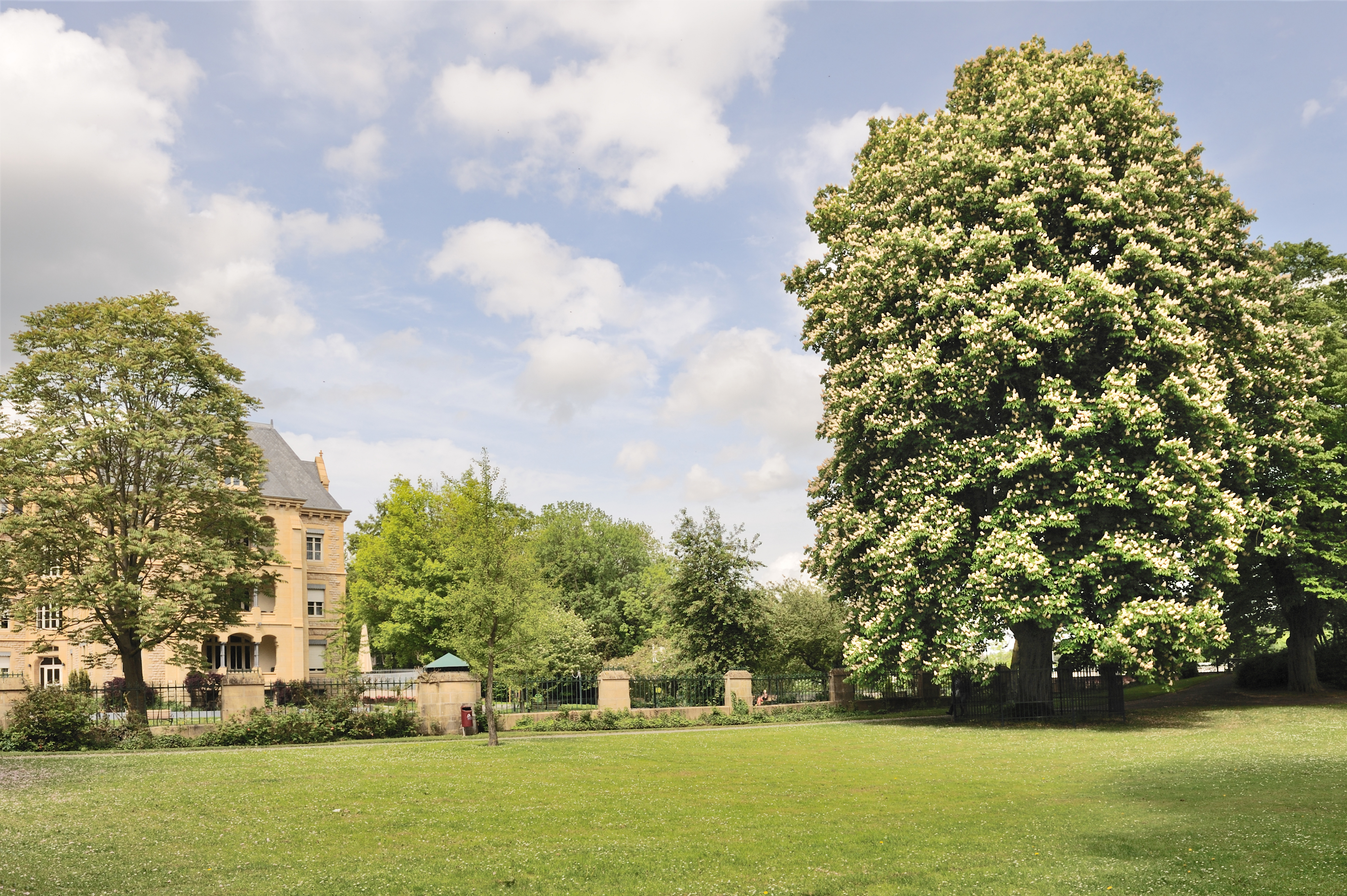 Arbre du prince Jean is a horse-chestnut (Aesculus hippocastanum) planted in 1921, when prince Jean, the future Grand Duke of Luxembourg. was born. The tree is located in the Pescatore Park in Luxembourg City. It is listed with the Remarkable trees of Luxembourg.